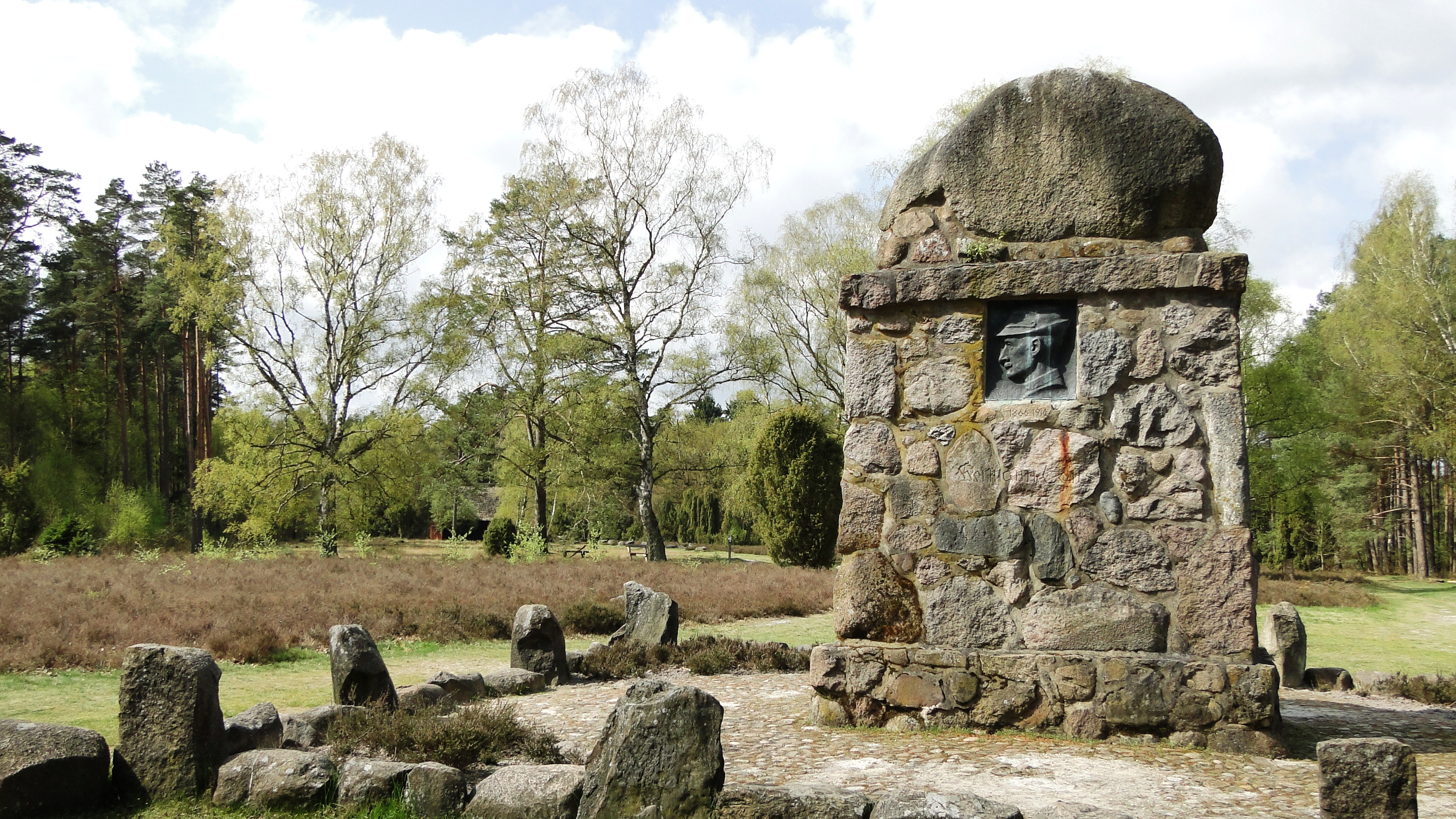 Monument to Hermann Löns near Müden (Örtze)